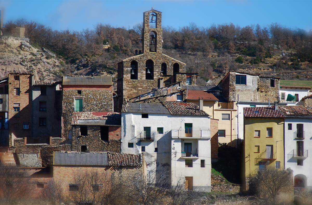 Figuerola d'Orcau (Isona i Conca Dellà)